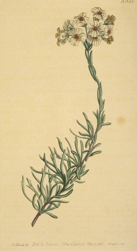 COMMON_NAMES-Cluster-leaved Eriocephalus, Kapok Bush -GENUS-Eriocephalus -SPECIES-Eriocephalus africanus -CLASS-syngensia -ORDER-Polygamia Necessaria -AUTHORITY-Linnaeus -MODERN_GENUS-Eriocephalus -MODERN_SPECIES-Eriocephalus africanus -MODERN_FAMILY-Compistae -PLANT_TYPE-shrub -COLOR-white and deep purple -SEASON-winter - early spring -NATIVE_REGION-S Africa -ZONE-9 -SOURCE-The Botanical Magazine -VOLUME-22 -PUB_DATE-1805 -REISSUED-__ -EDITOR-John Sims -ARTIST-S. Edwards, Sydenham -NALPCD- Disc 0427 IMG0081.PCD